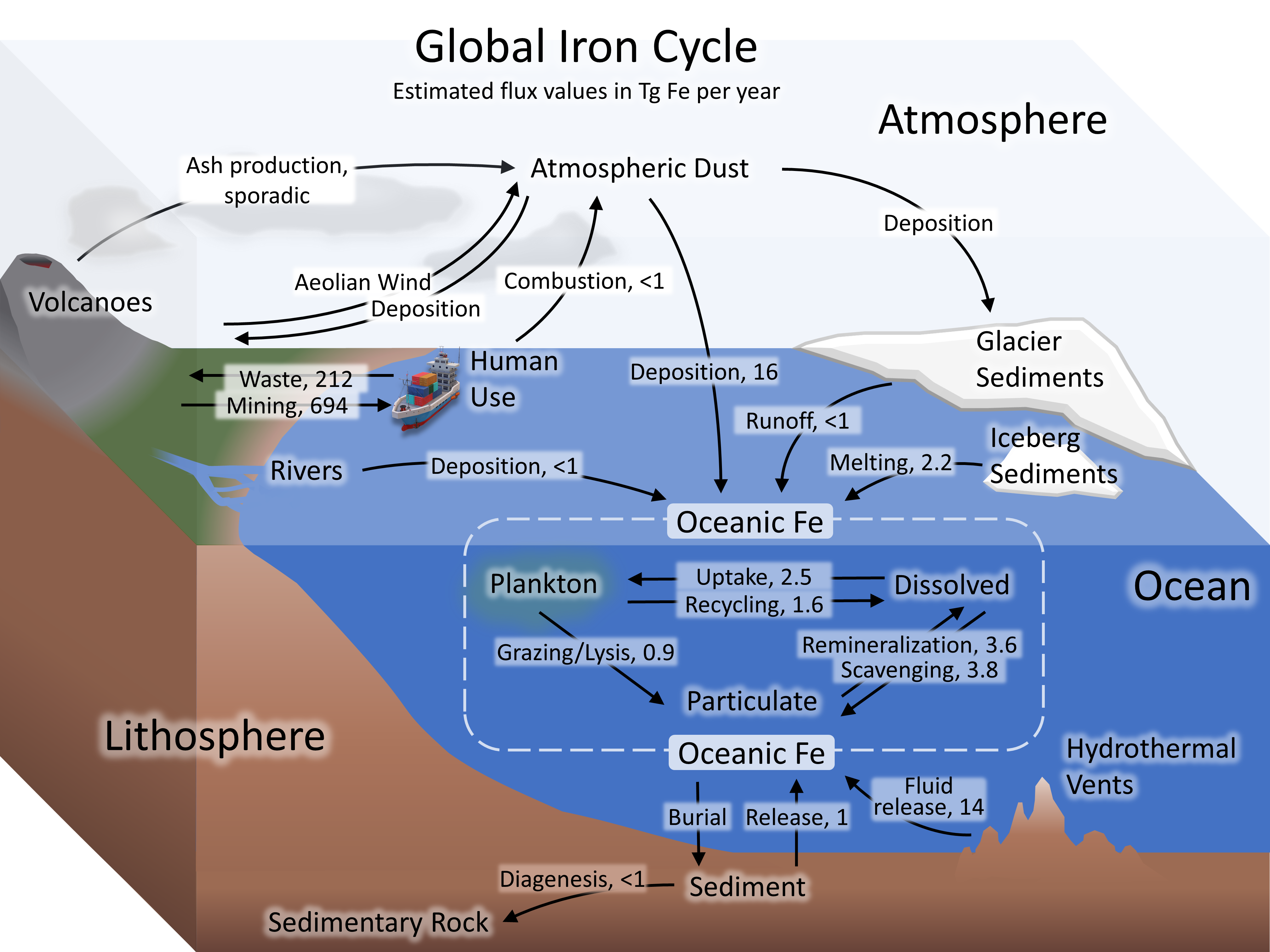 Diagram of the biogeochemical iron cycle showing reservoirs and fluxes